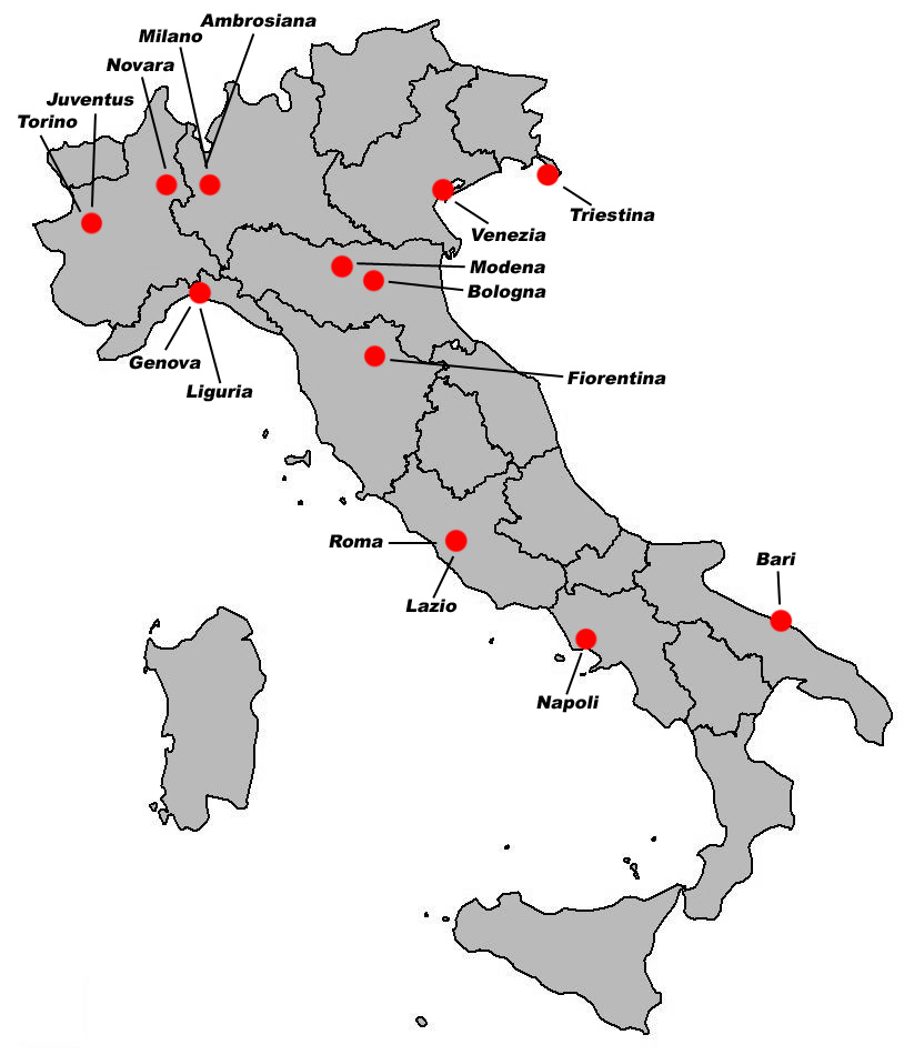 Serie A 1939-40 team locations